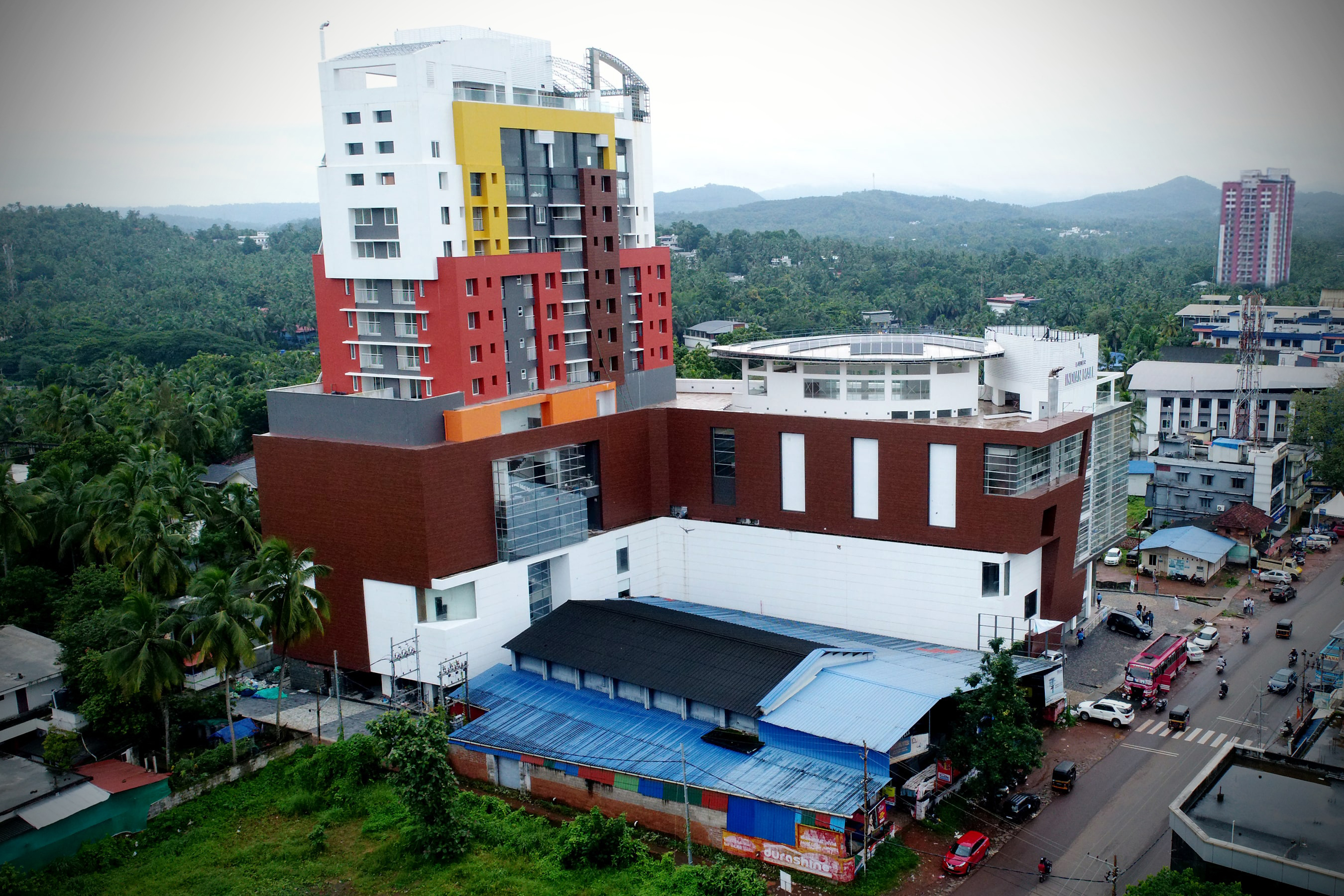 Manjeri Town Calicut Road View